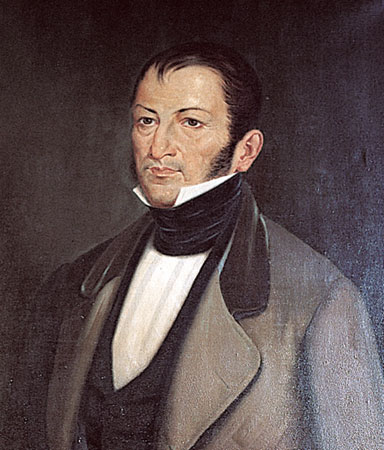 Half-length, posthumous portrait of Nicolás Bravo, president of Mexico